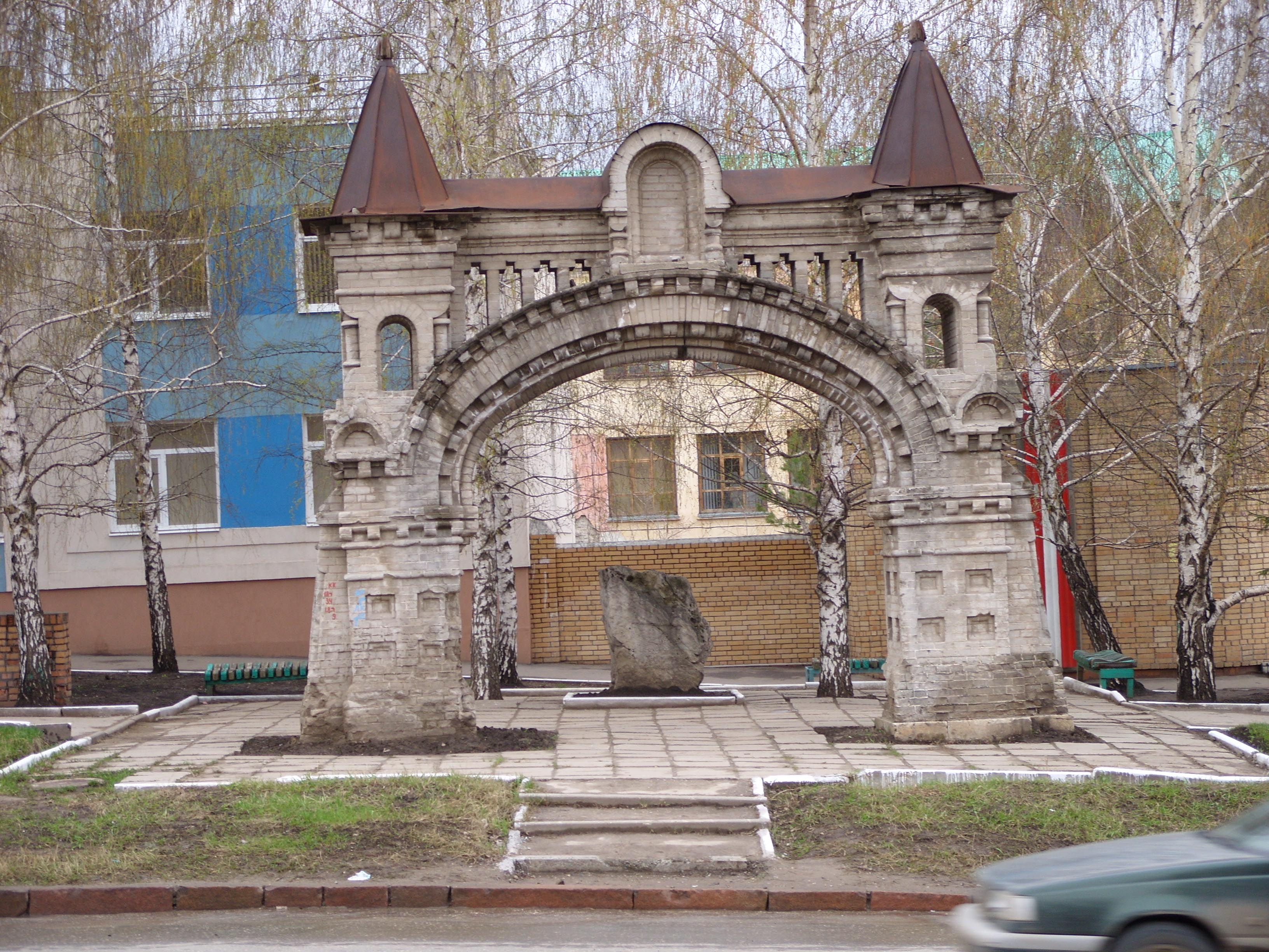 Gates of destoyed Nikola's church in Samara